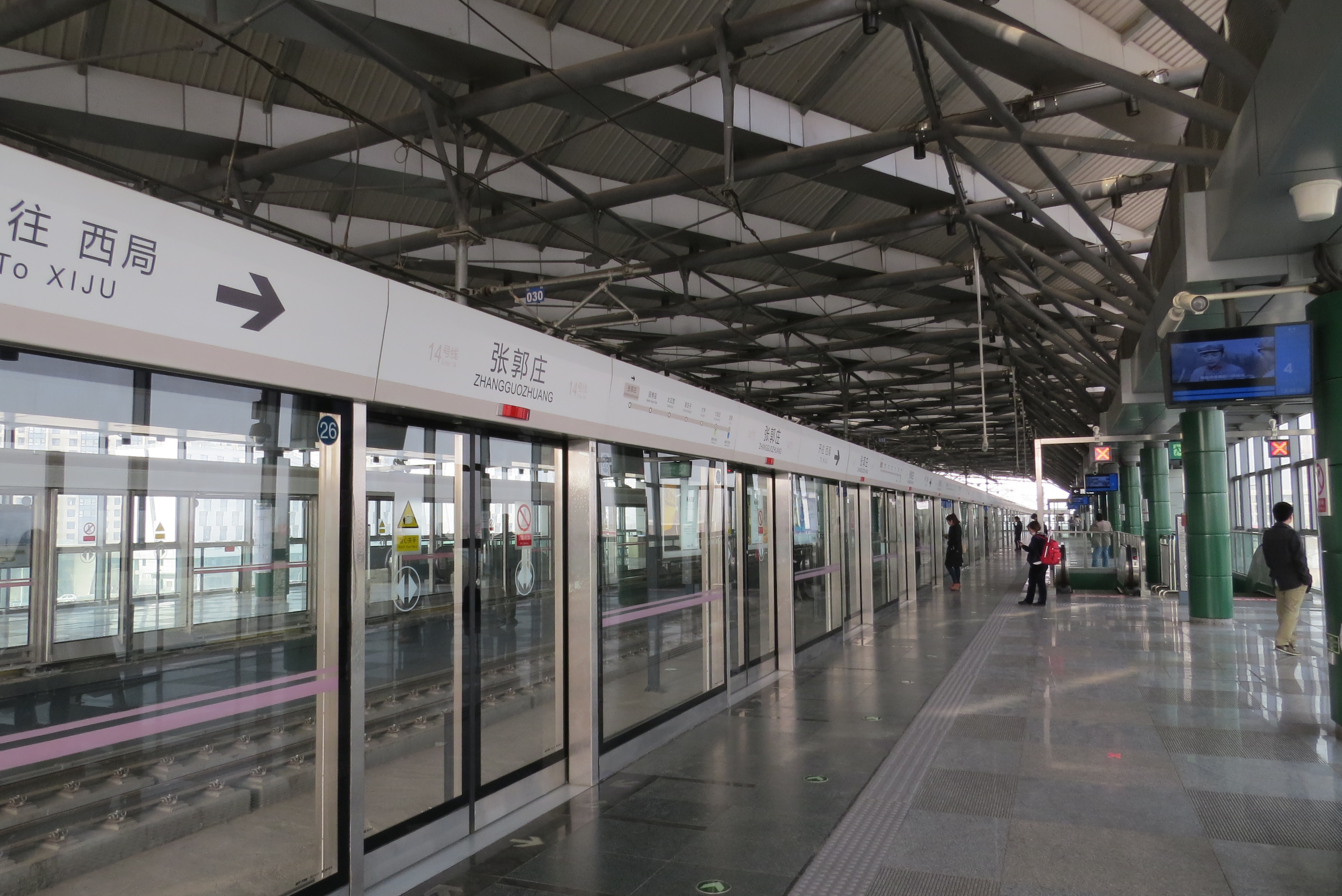 4 minutes left...